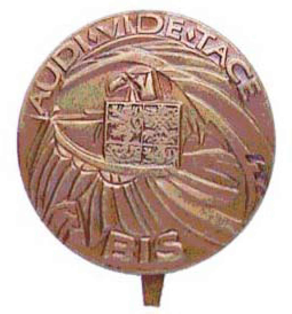 Medal of the Security Information Service